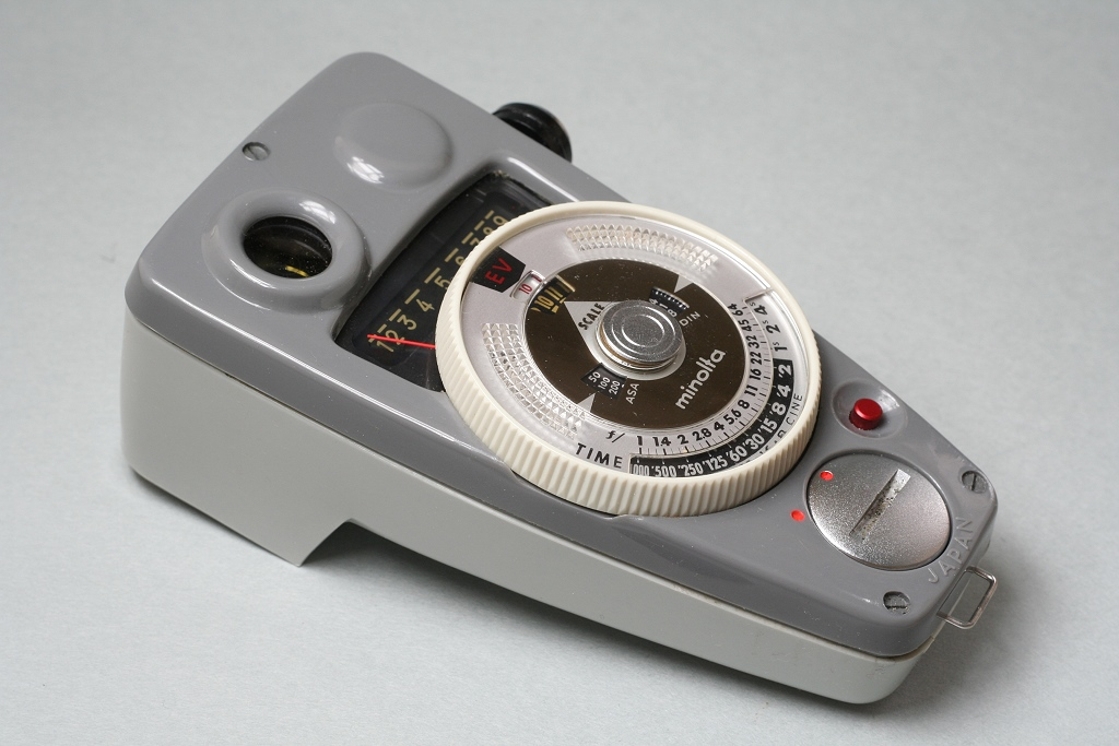 This image shows a "Minolta View Meter 9" light meter.